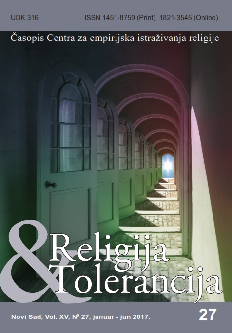 Cover of Religion & Tolerance Magazine from the year 2017 Српски (ћирилица): Насловна страна часописа Религија & Толеранција из 2017. године